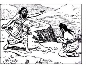 समर्थ रामदासस्वामींनी एकदा ब्रह्मपिशाच्चाचे सोंग घेतले. तेव्हा कल्याण स्वामींनी त्यांची प्रार्थना करून त्यांना शांत केले. ते ठिकाण सज्जनगडावर 'ब्रह्मपिसा' या नावाने ओळखले जाते.